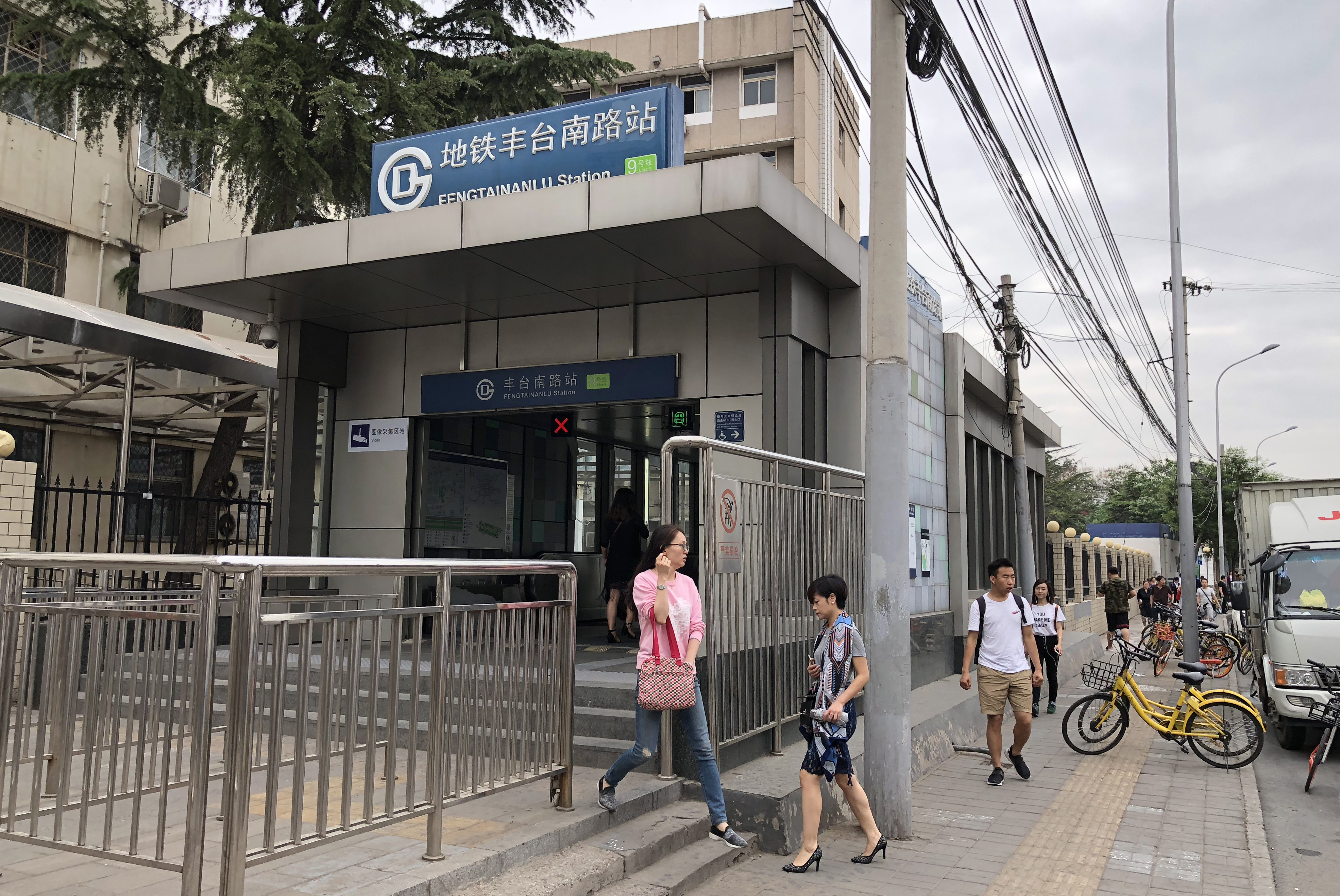 Possibly the nearest station to South Signal.